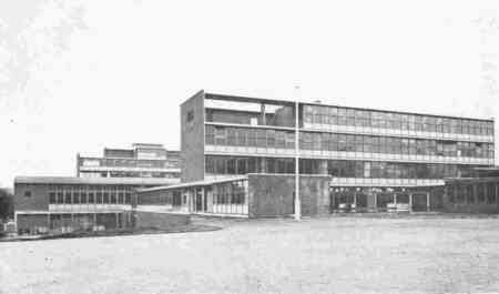 The Quintinn School (1956). View from the Playground, of Main Classroom Block, with Library on Ground Floor. On extreme left, the Hall. Centre: Foyer, Main Entrance and Administration Block. Right foreground: Part of Science Block. In background: Kynaston School Classroom Block.